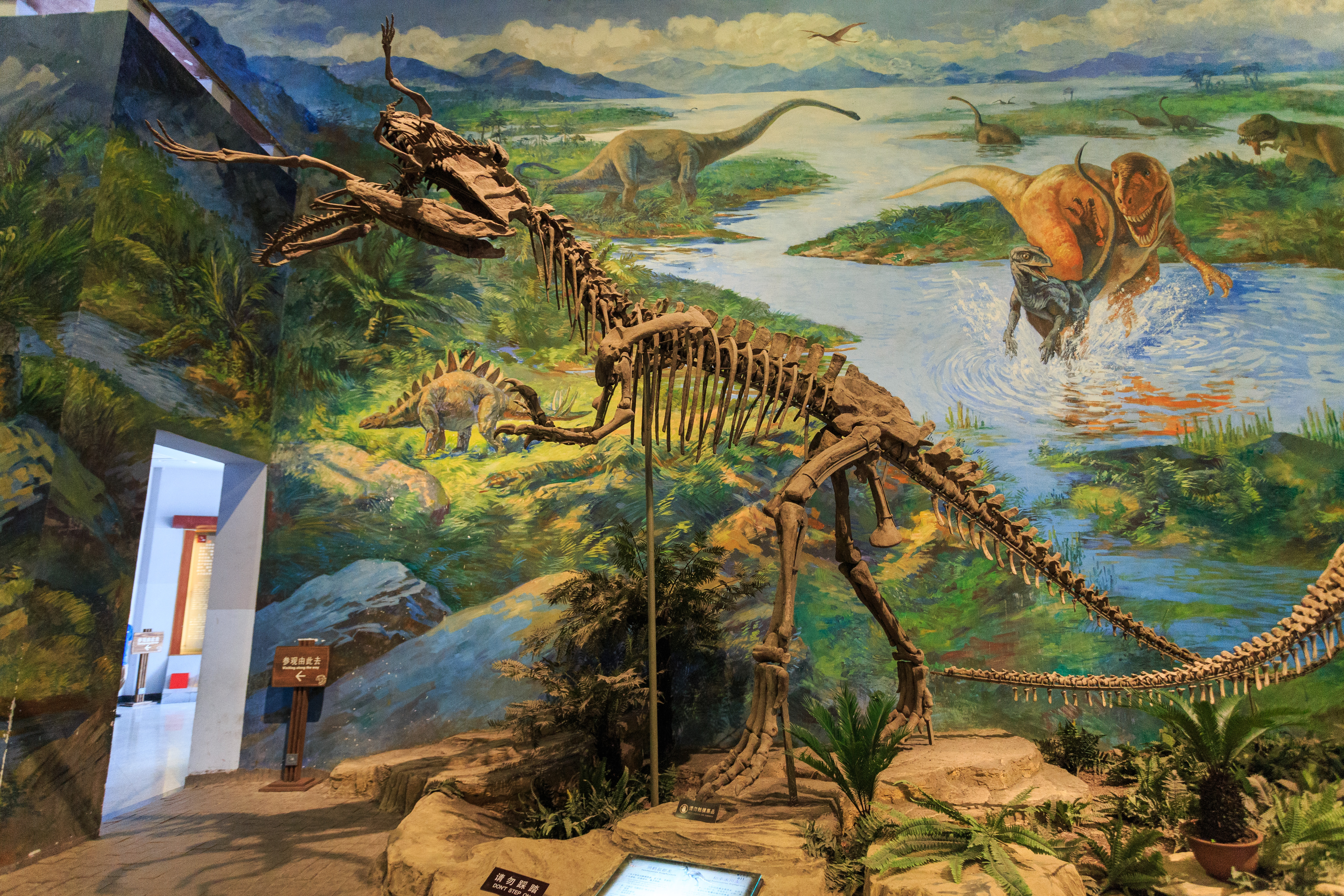 Yandusaurus hongheensis (the little dinosaur in the mouth of bigger dinosaur) Symtemtic position: Hypsilophodontidae, Ornithopoda, Ornithischia. Locality: Wujiaba, Zigong, Sichuan, China. Age: Late Jurassic (about 150 million years ago). Yangchuanosaurus hepingensis (the bigger dinosaur) Symtemtic position: Megalosauridae, Theropoda, Saruischia. Locality: Heping, Zigong, Sichuan, China. Age: Late Jurassic (about 150 million years ago).